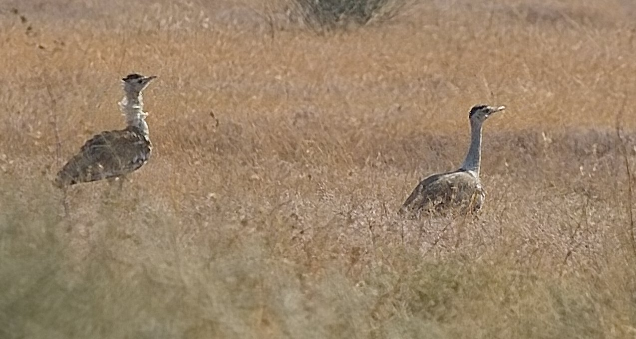 Shot at Desert National Park, Jaisalmer